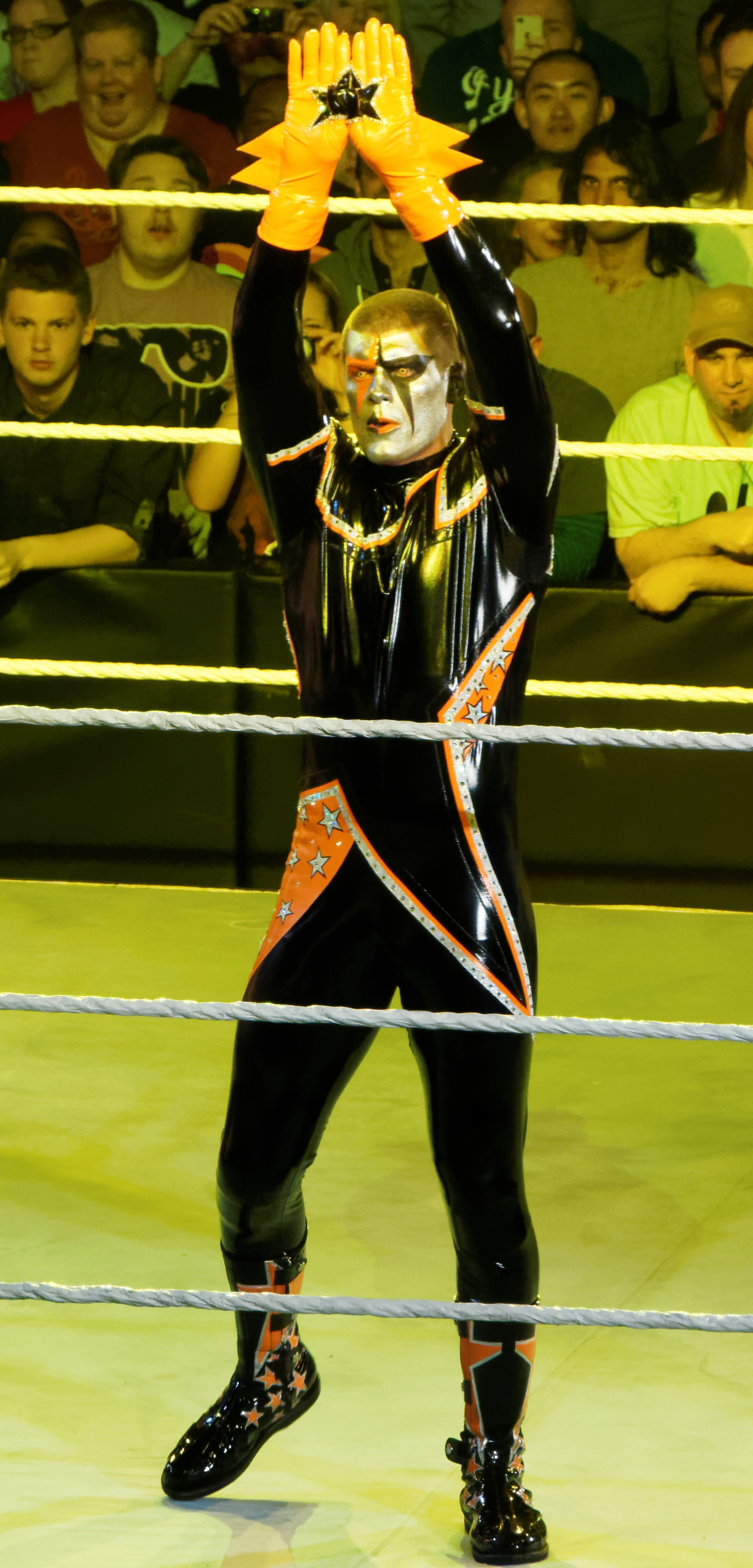 Photo of Stardust, licensed in the Creative Commons 2.0 Share-A-Like License by Miguel.Discart. Originally uploaded to